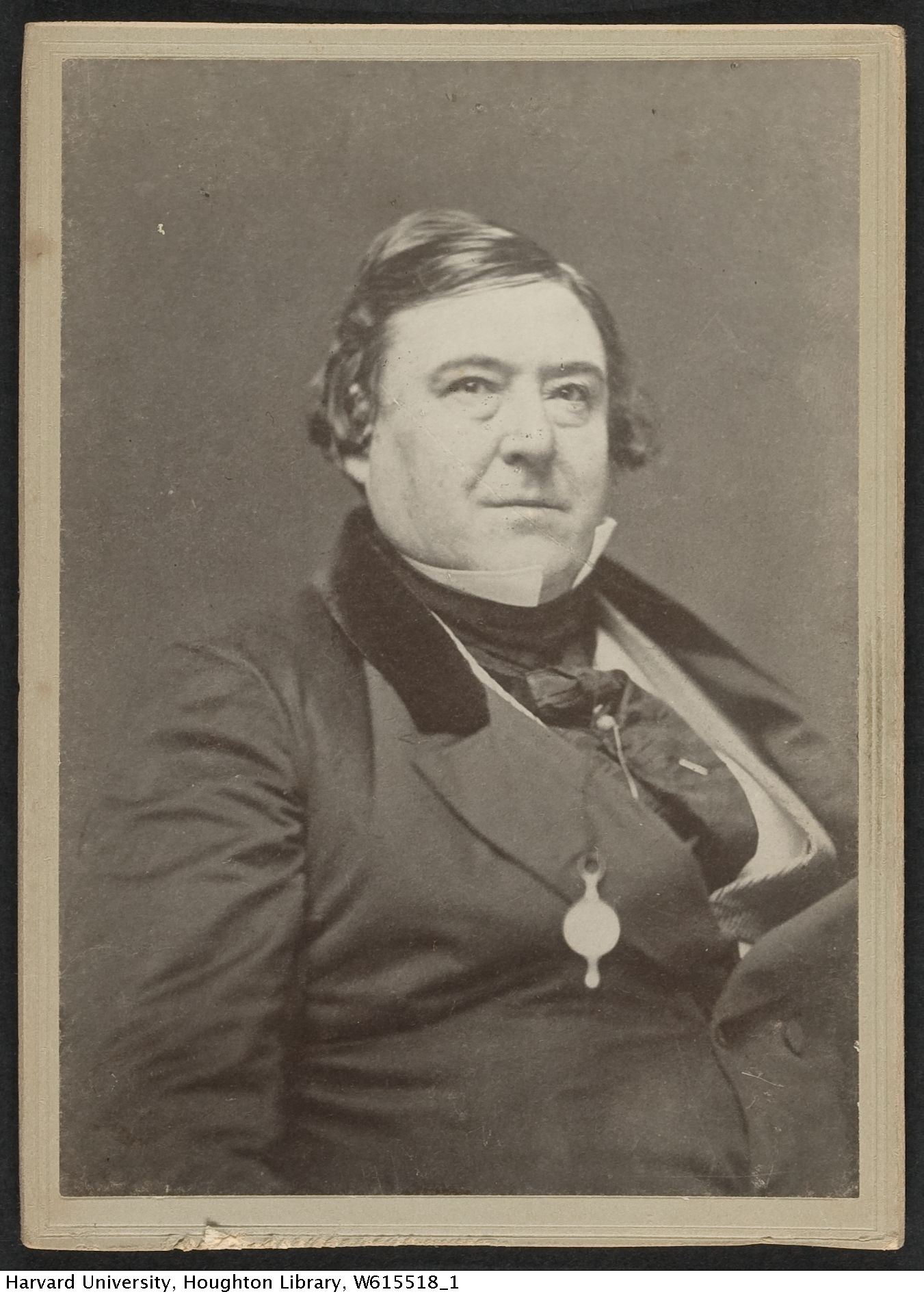 Cabinet card image of Canadian actor [William] Rufus Blake (1805-1863). TCS 1.2616, Harvard Theatre Collection, Harvard University